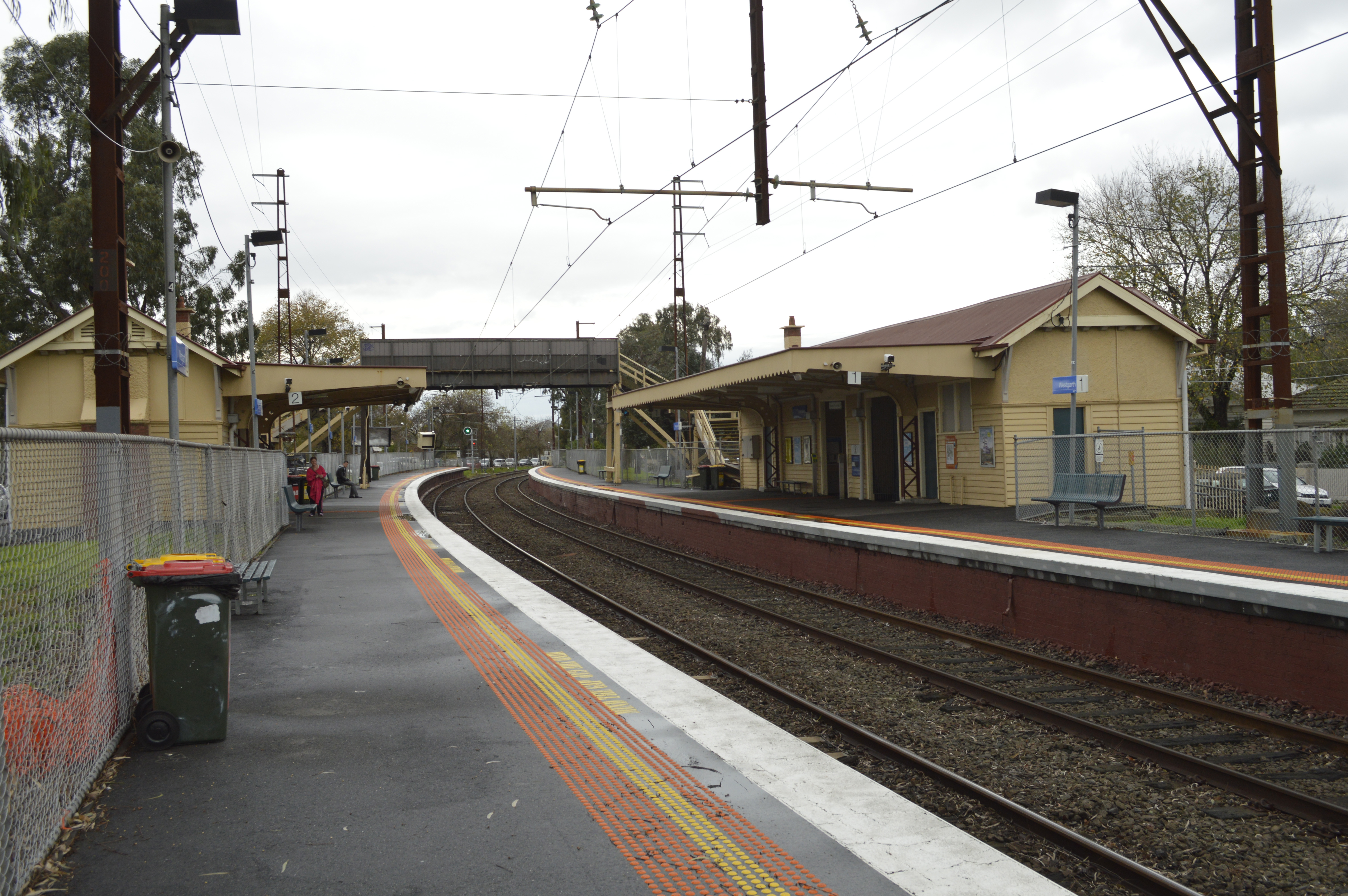 View from platform 2 looking towards Hurstbridge.